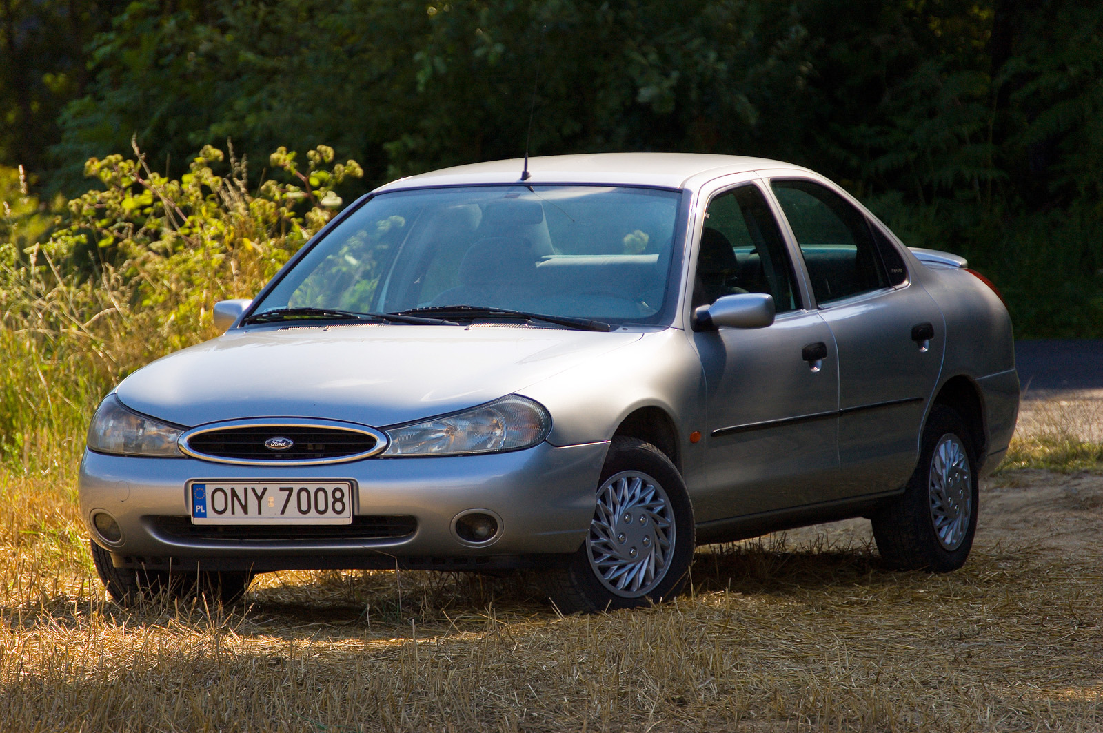 Ford Mondeo Mk II, front.